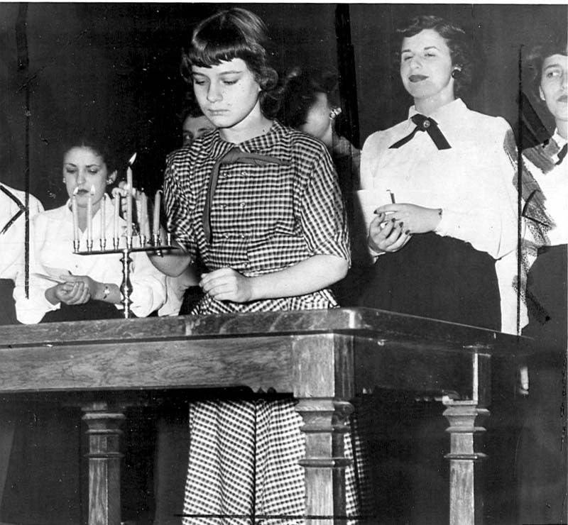 Title: Lighting the Menorah at Young Judaea Event Description: Chanukah event at a Young Judaea club, unknown location Photographer: unknown Medium: black and white photograph Date: circa 1940s-1950s Collection: Hadassah Collection on Long Term Loan to the American Jewish Historical Society Repository: American Jewish Historical Society Rights Information: No known copyright restrictions; may be subject to third party rights. For more copyright information, click here. See more information about this image and others at CJH Digital Collections. To inquire about rights and permissions, or if you have a question regarding the collection to which the image belongs, please contact the Reference Department of the American Jewish Historical Society by email. Digital images created by and appears courtesy of Hadassah, the Women's Zionist Organization of America, Inc.